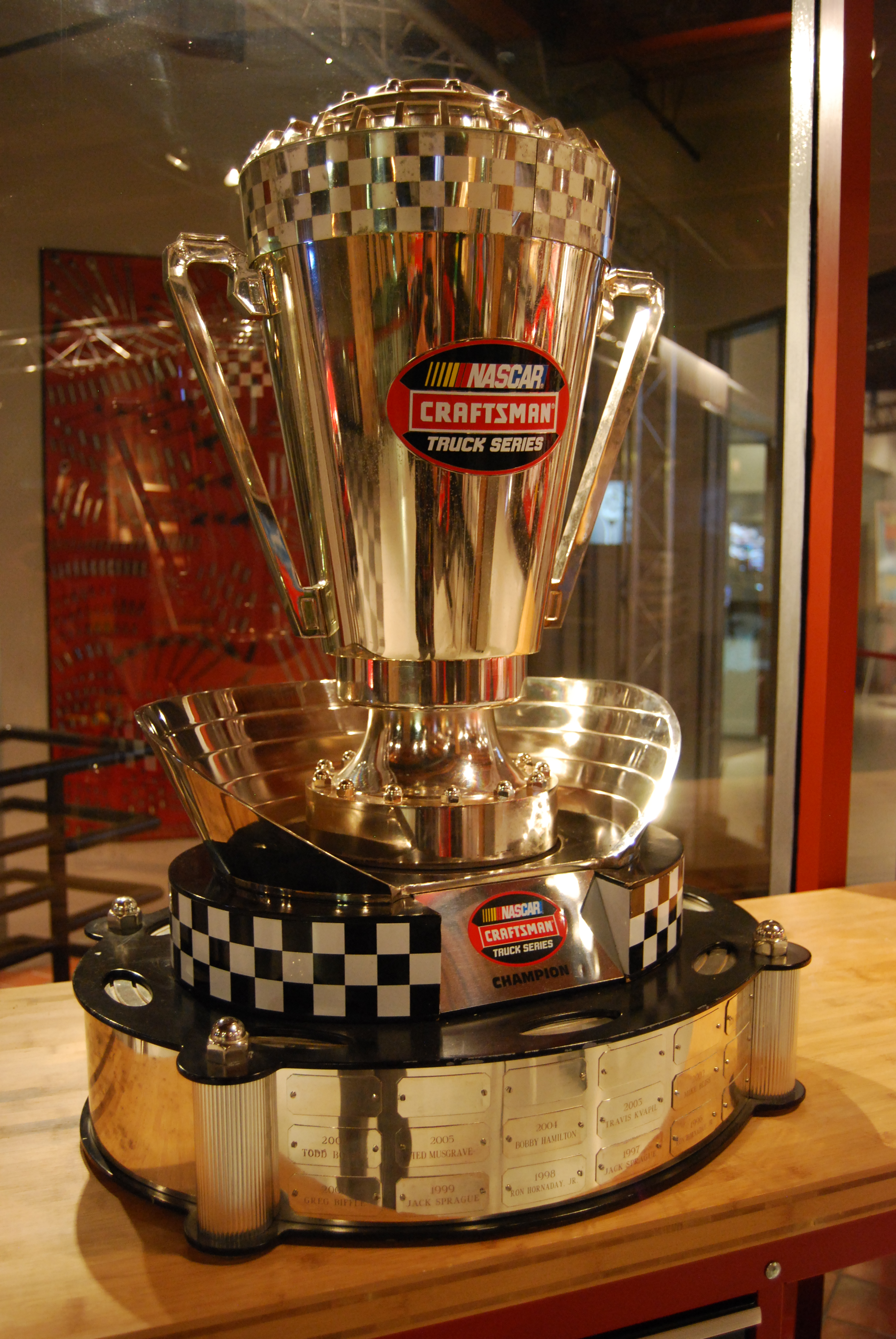 The Craftsman Experience in Chicago